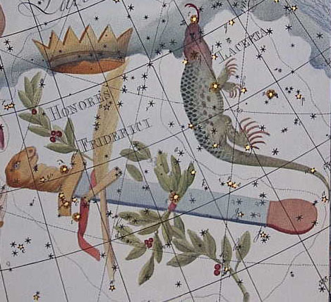 Honores Frederick